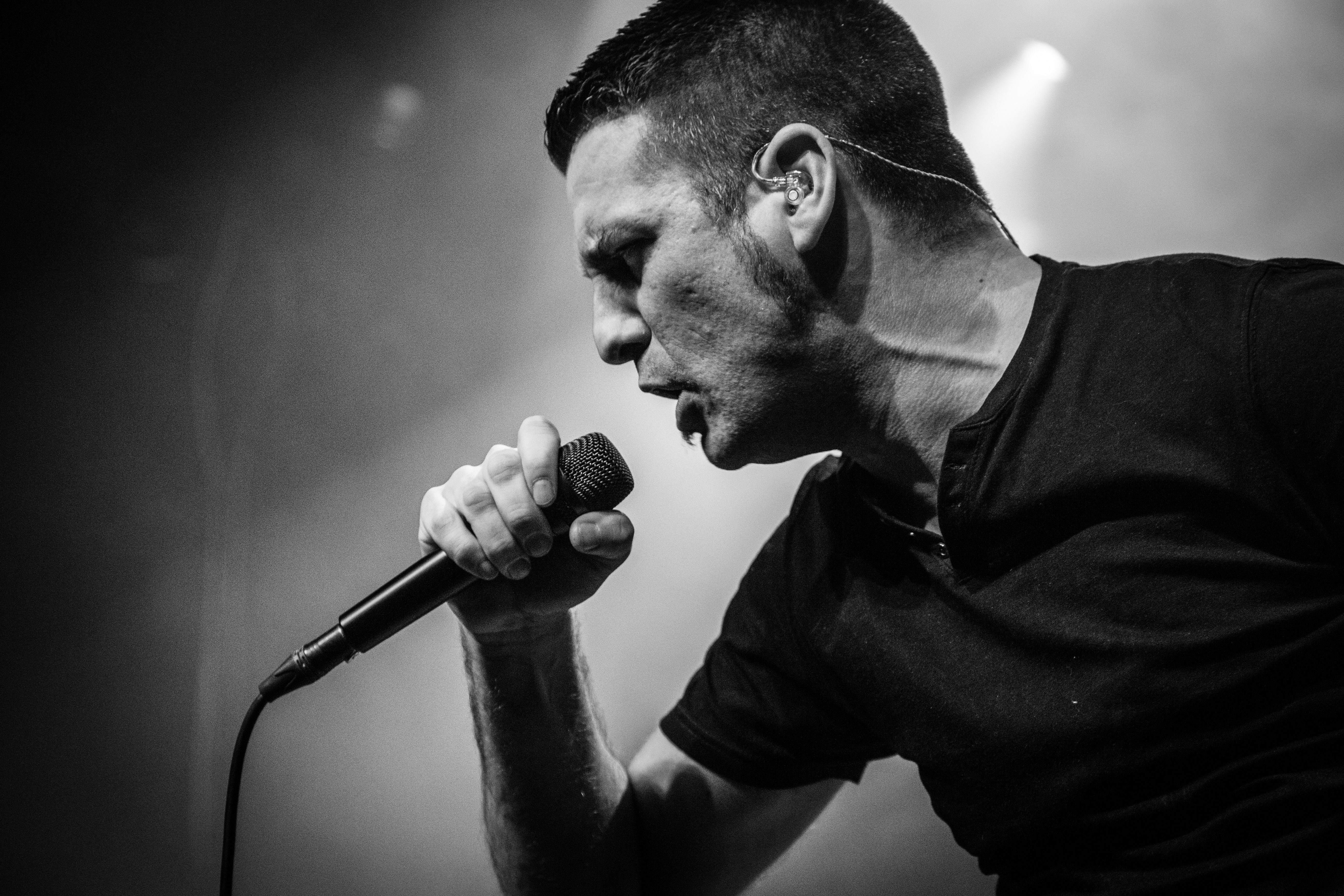 Gorod live at the Complexity Fest, Haarlem 2017